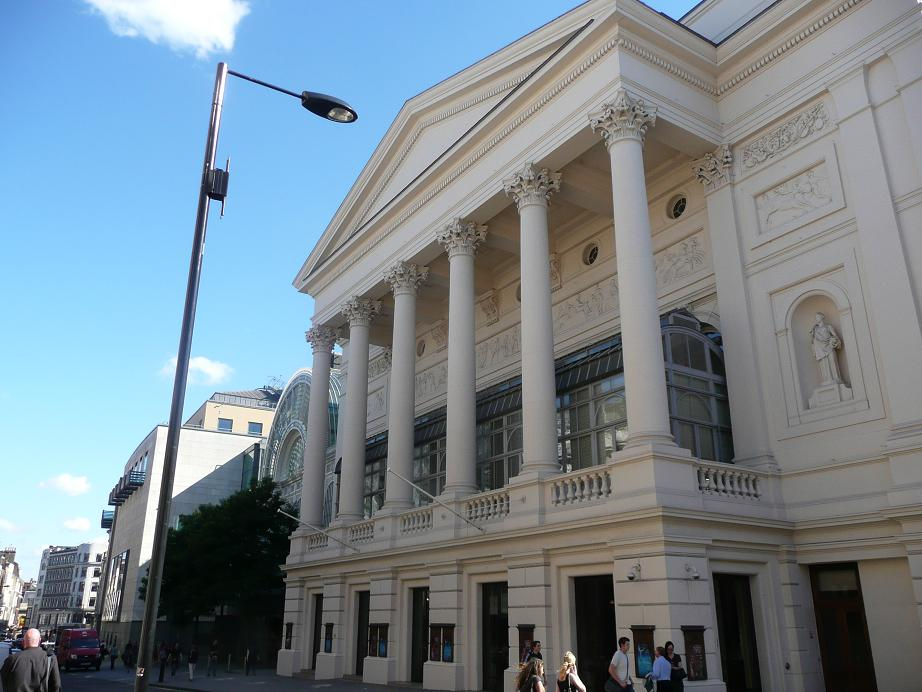 Royal Opera House of London